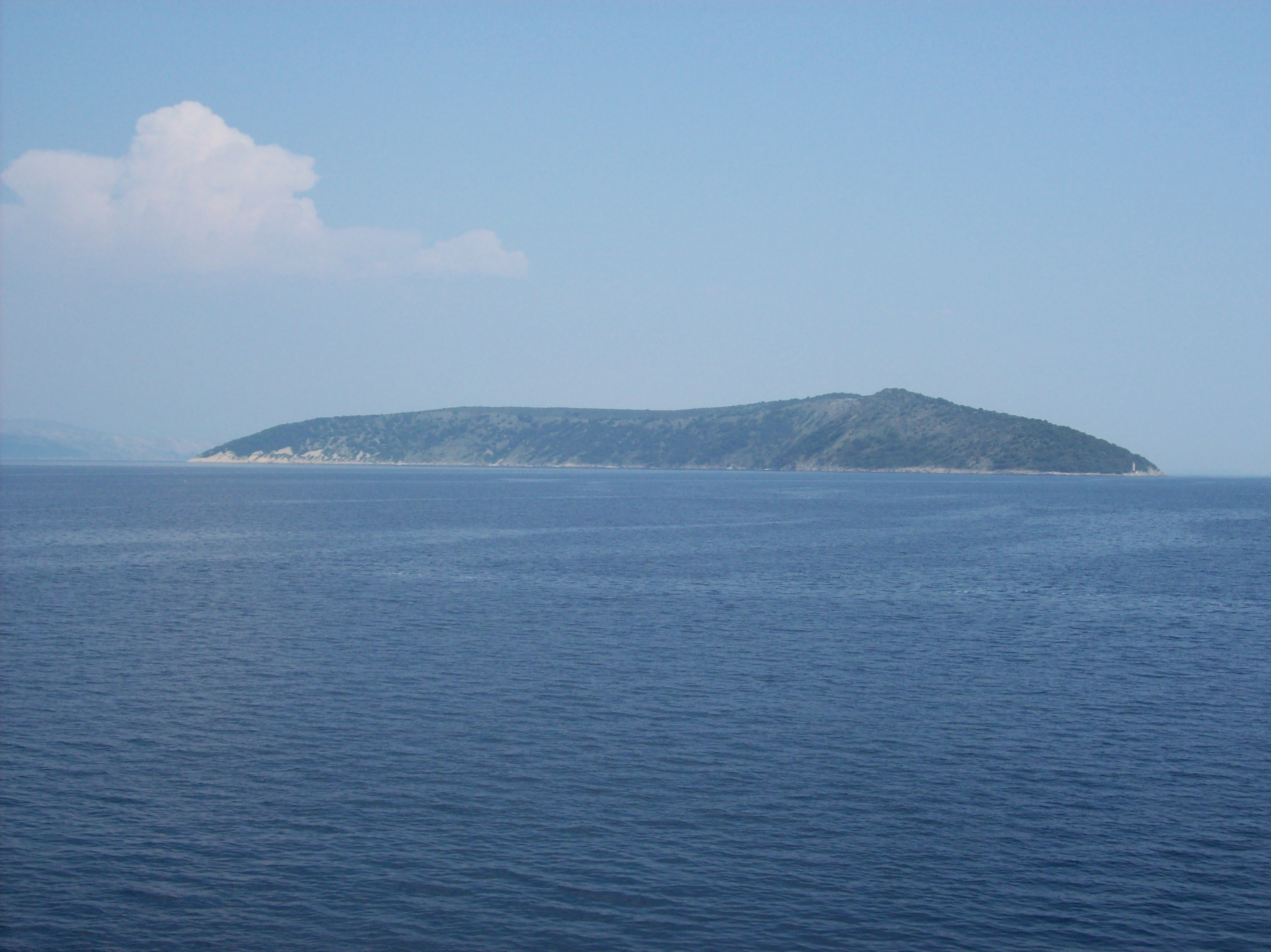 Island Plavnik, Croatia